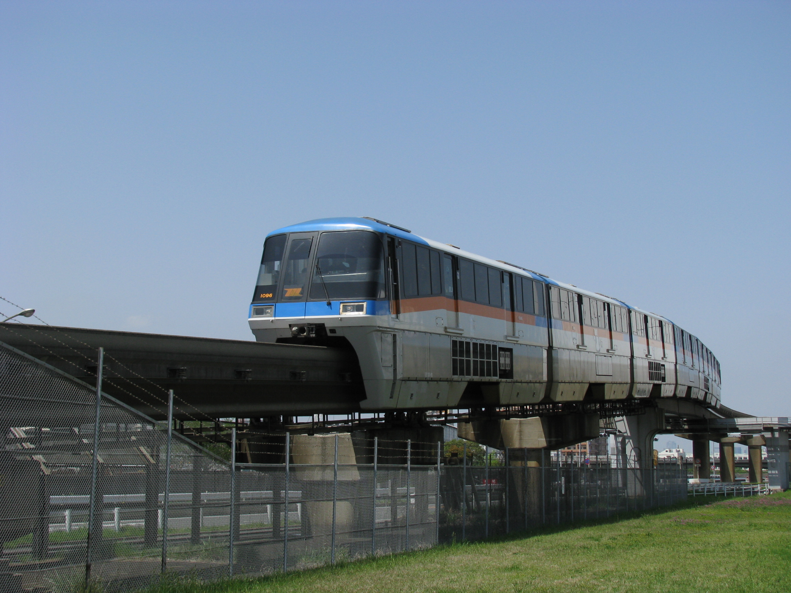 The Tokyo Monorail series 1000. This location is Haneda Airport, in Ōta, Tokyo, Japan.